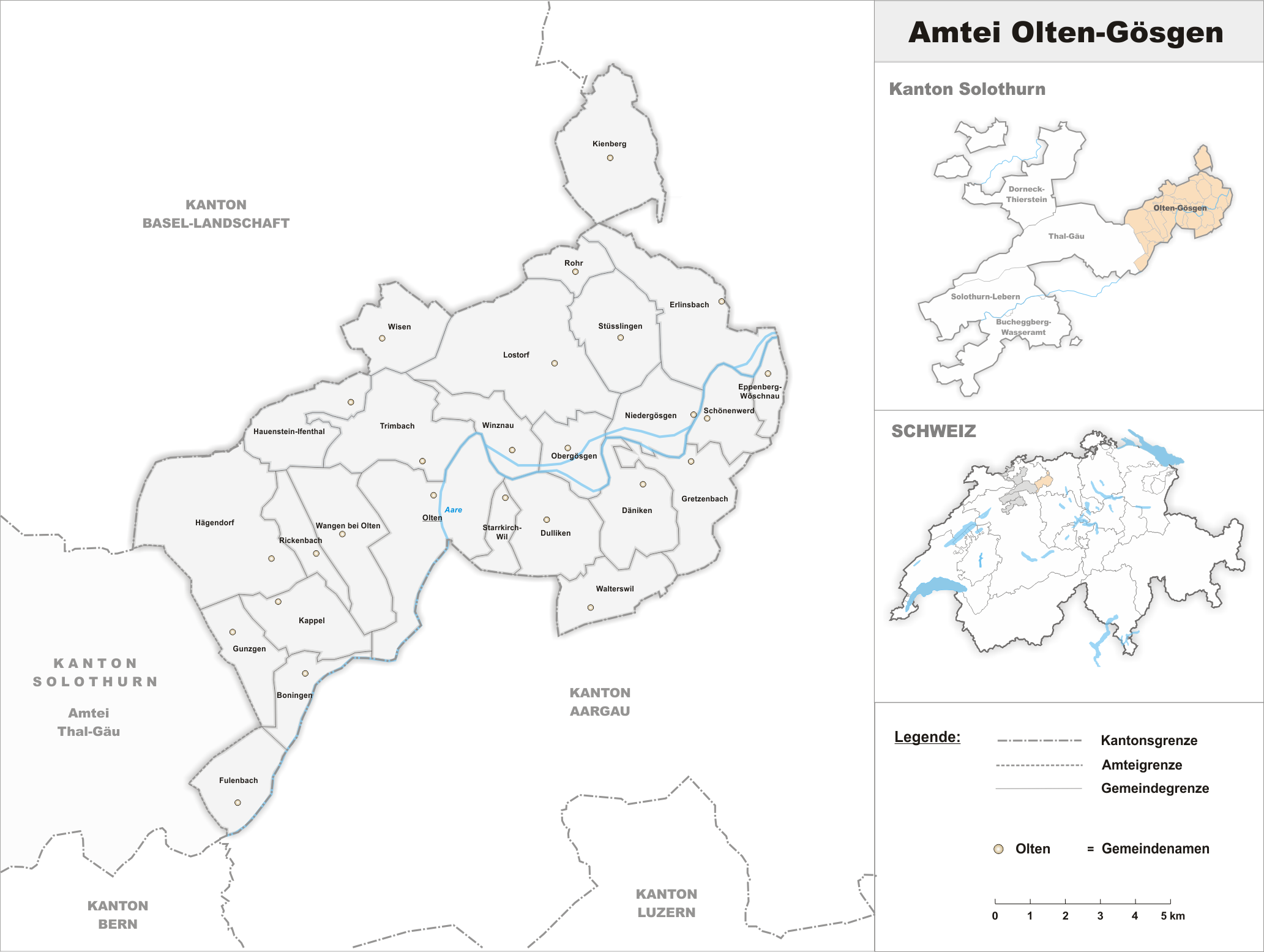 Municipality in the Amtei of Olten-Gösgen